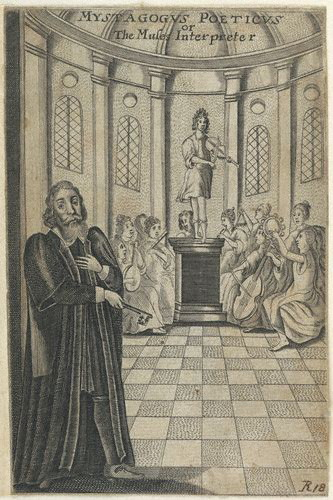 Portrait of Alexander Ross (1590-1654).